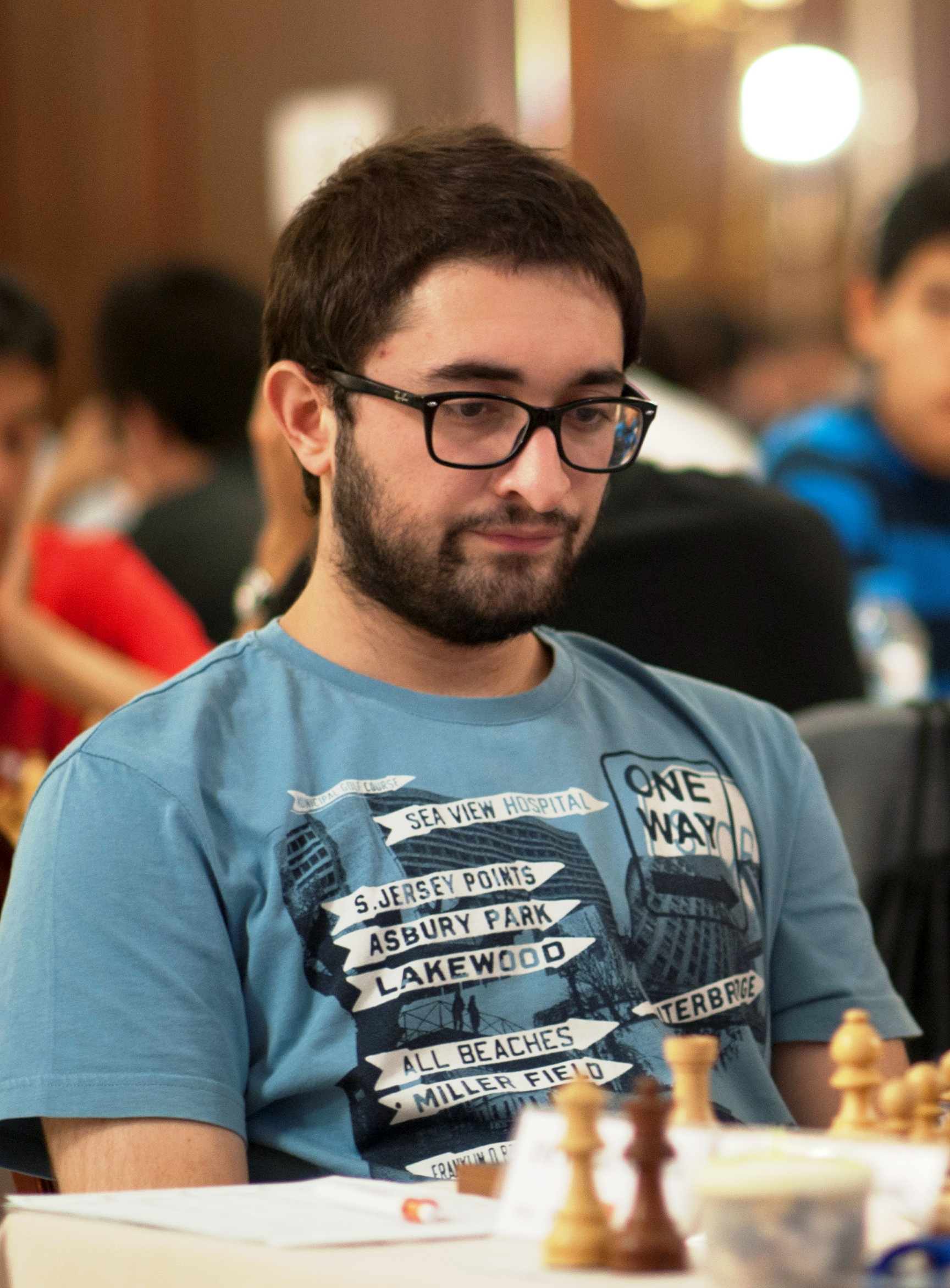 IM Mustafa Yilmaz, WChJ Athens 2012